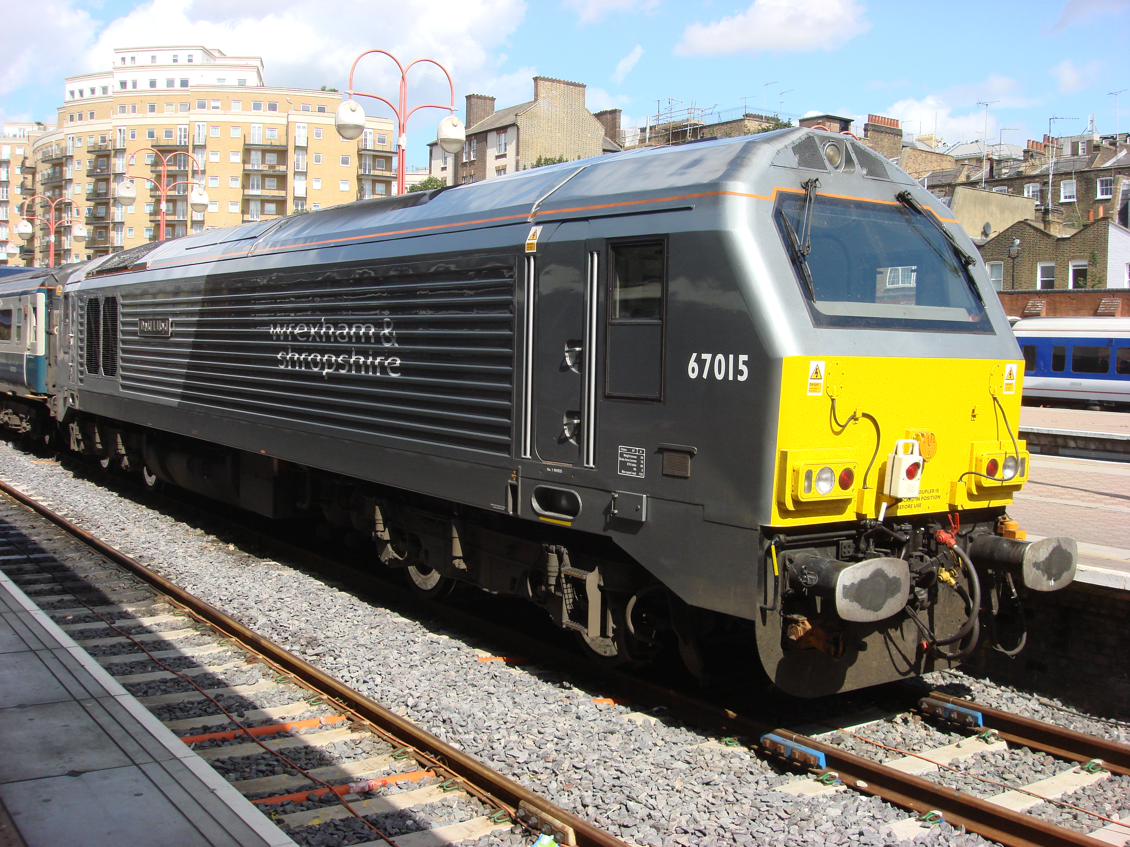 67015 at Marylebone station